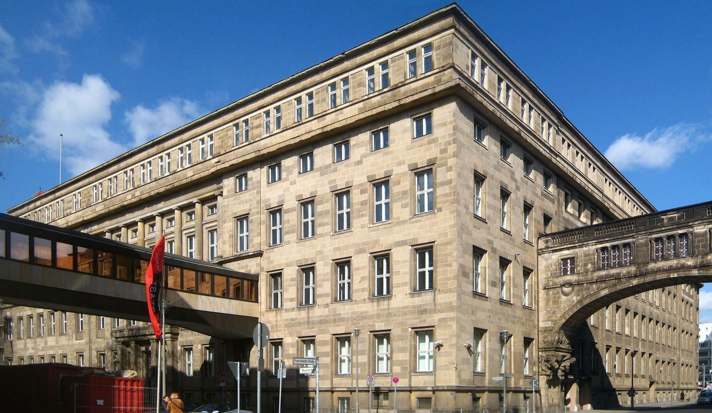 Block I of the former Deutsche Bank Complex at Mauerstraße No. 29-32, corner of Französische Straße (on the right), in Berlin-Mitte, with skyways to the neighboring buildings. The building is now used by serveral government institutions such as the Federal Ministry of Food, Agriculture and Consumer Protection. Block I was built from 1872 to 1874 to a design by the architectes Ende & Böckmann. The Deutsche Bank complex has been designated as a historic landmark.